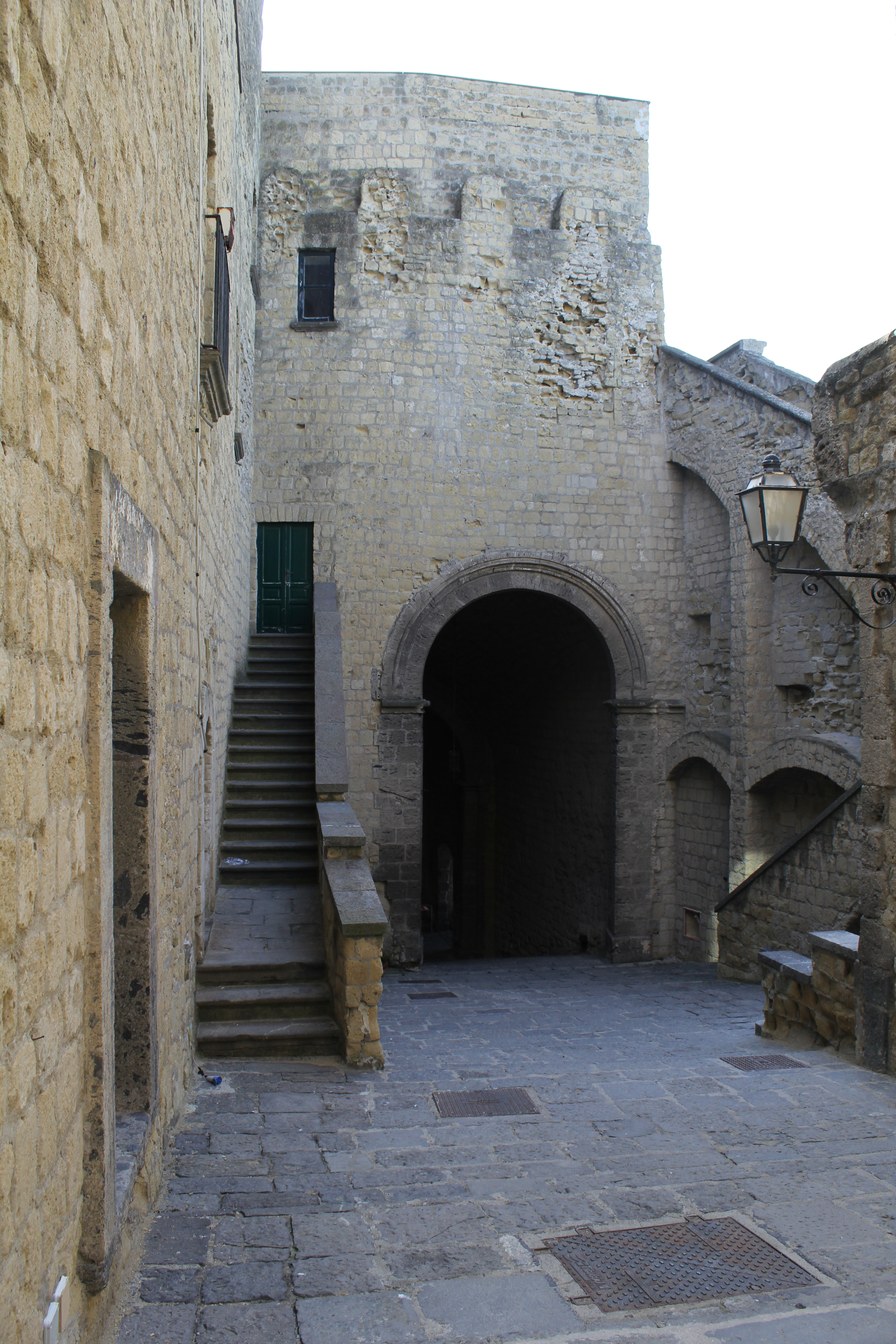 Castel dell'Ovo (13) This file was generated using WMUK's equipment.